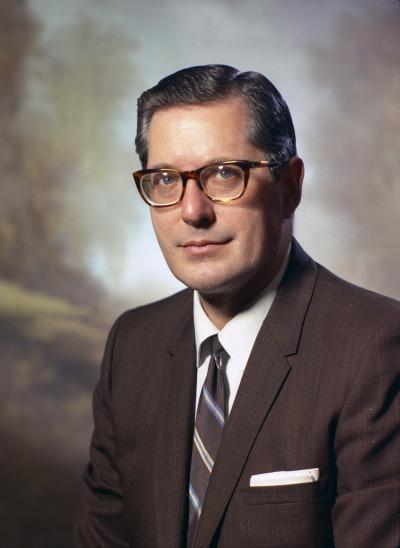 Washington State Senator August Mardesich